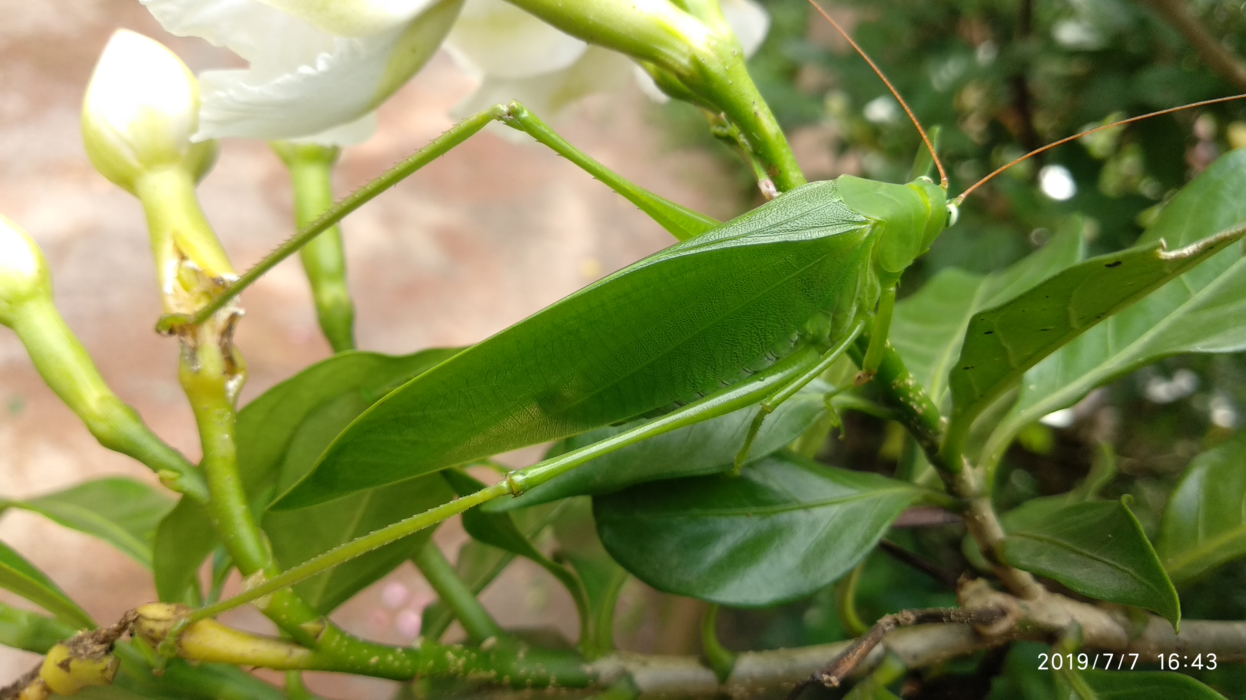 Green hopper on Tabernaemontana divaricata